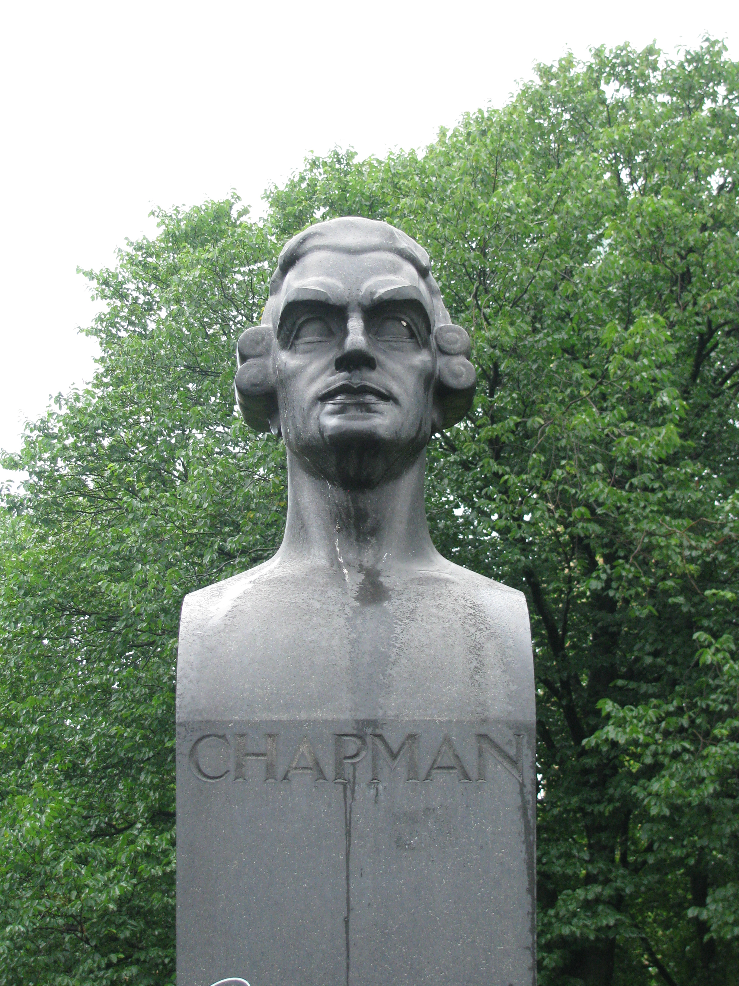 Bronze statue of te Swedish shipbuilder Fredrik Henrik AF Chapman in front of the Gotenburg Maritime museum, outside, in the public area.